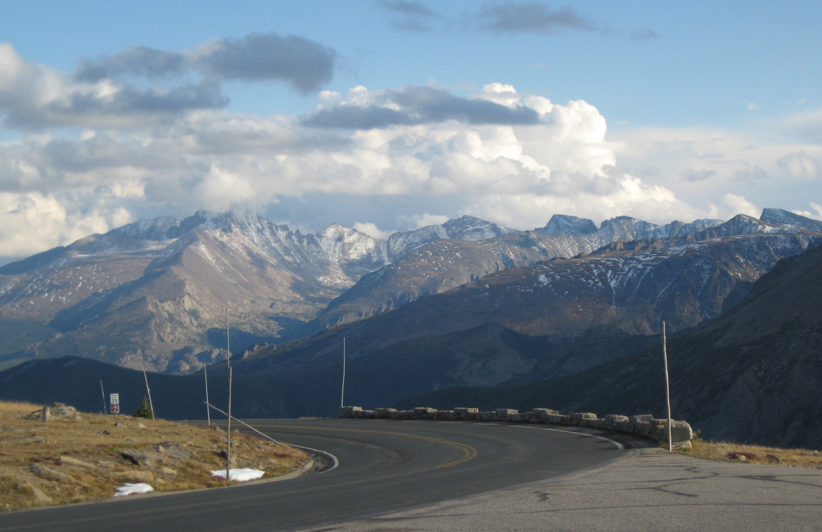 Photo from the top of Trail Ridge Road, Rocky Mountain National Park (RMNP), Colorado, USA. This highway is the longest and highest in RMNP and leads the intrepid motorist up to meet a breathtaking mix of sky and light. The wooden poles mark the edges of the road under deep snow to guide snowplows in the spring.